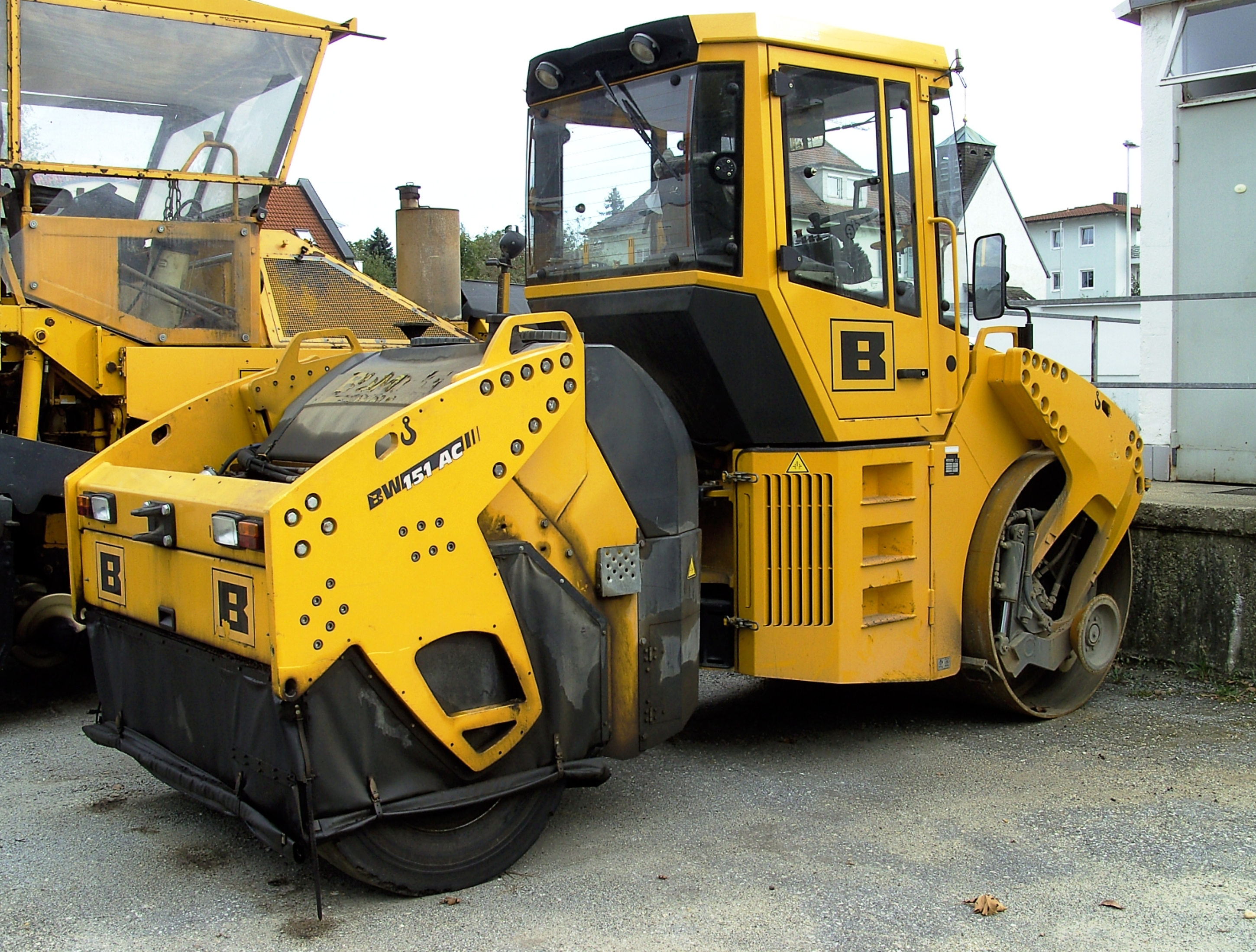 A Bomag BW 151 AC road roller in Germany.